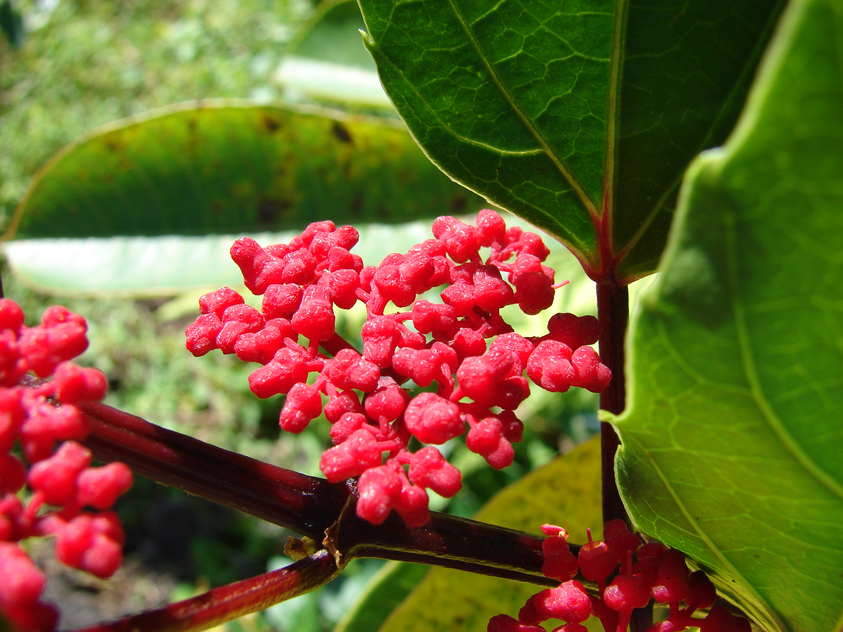 Cissus nodosa (flowers and leaves). Location: Maui, Enchanting Floral Gardens of Kula